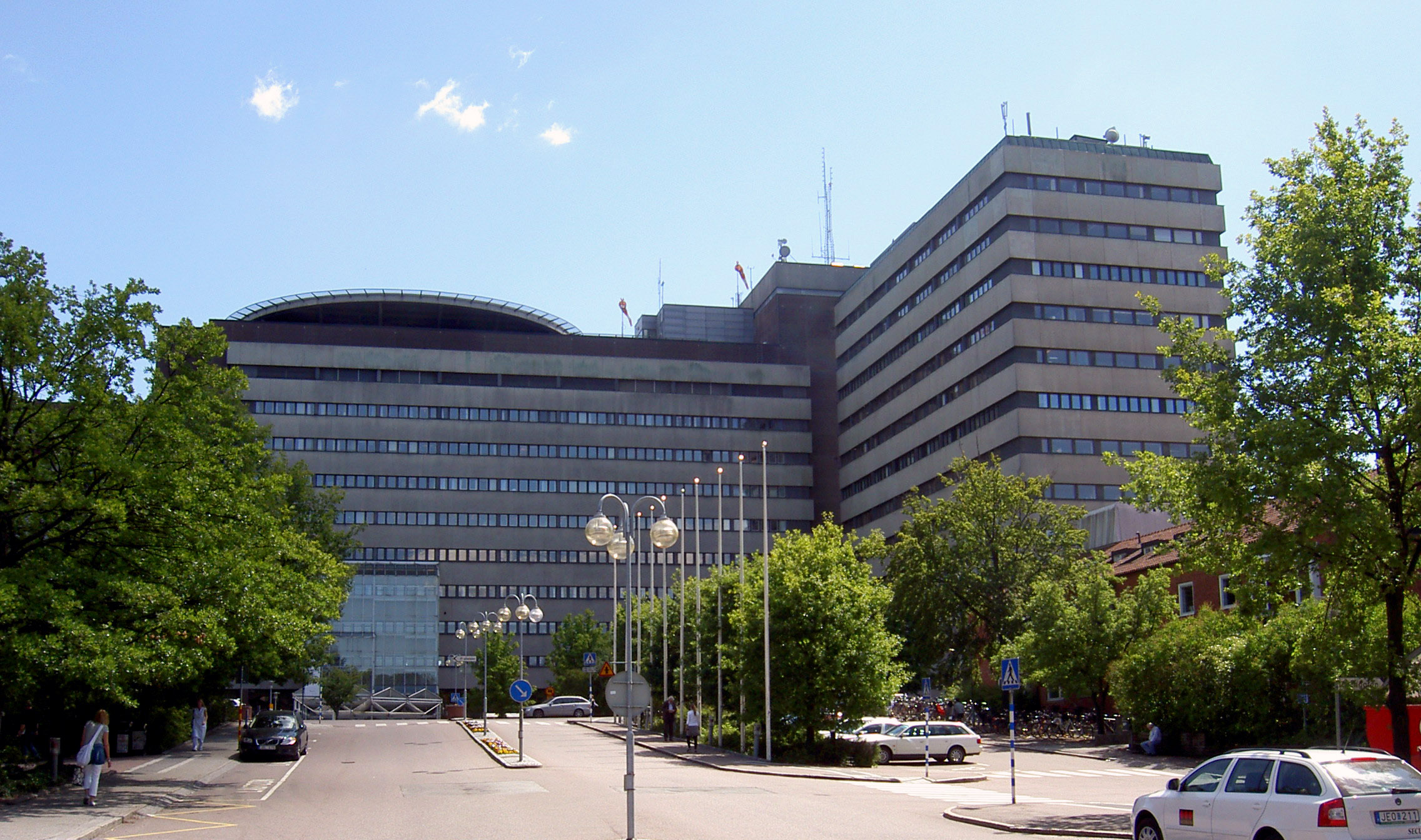 University Hospital, Lund